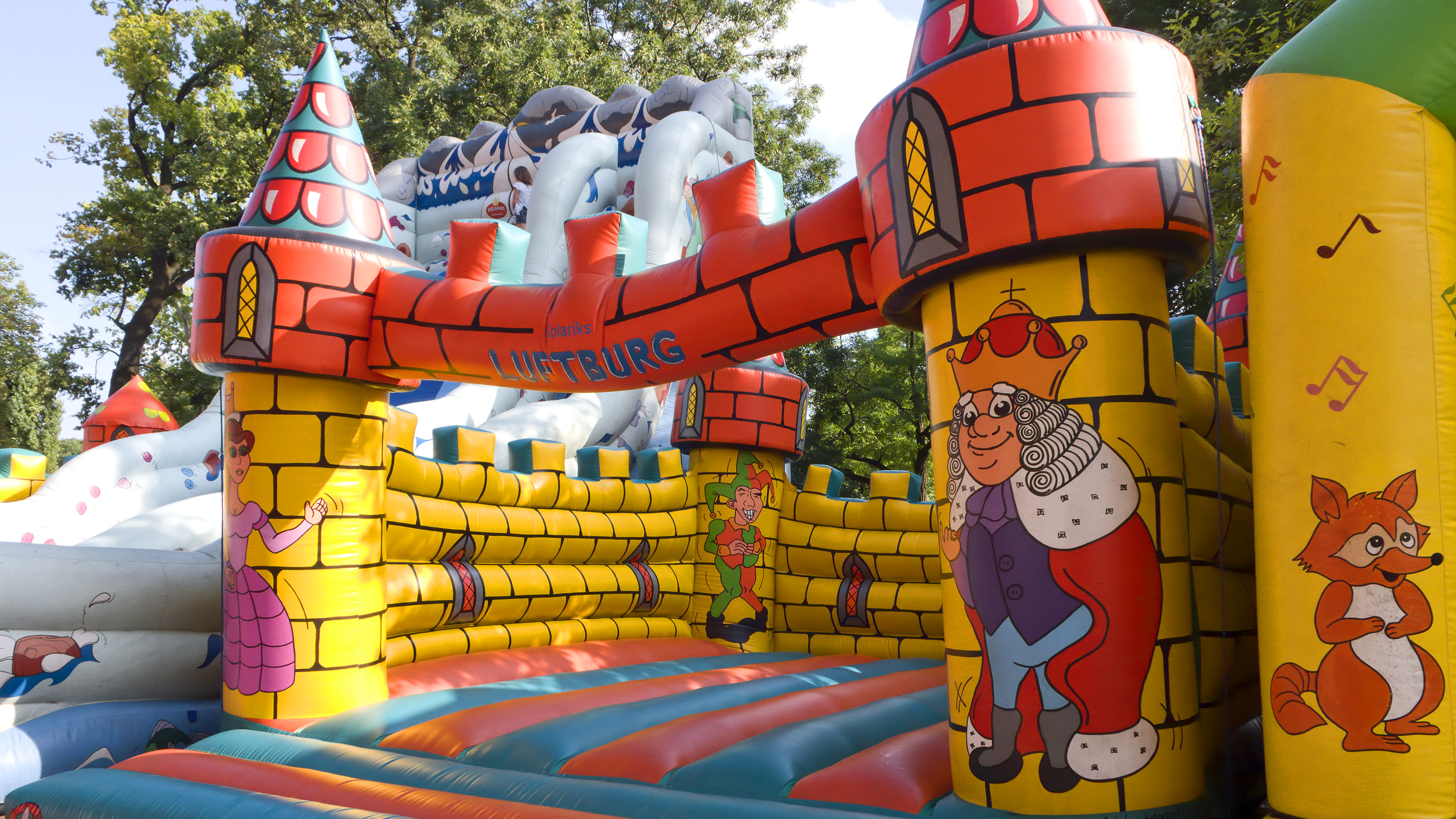 Bouncing castle in Prater, Vienna Leopoldstadt